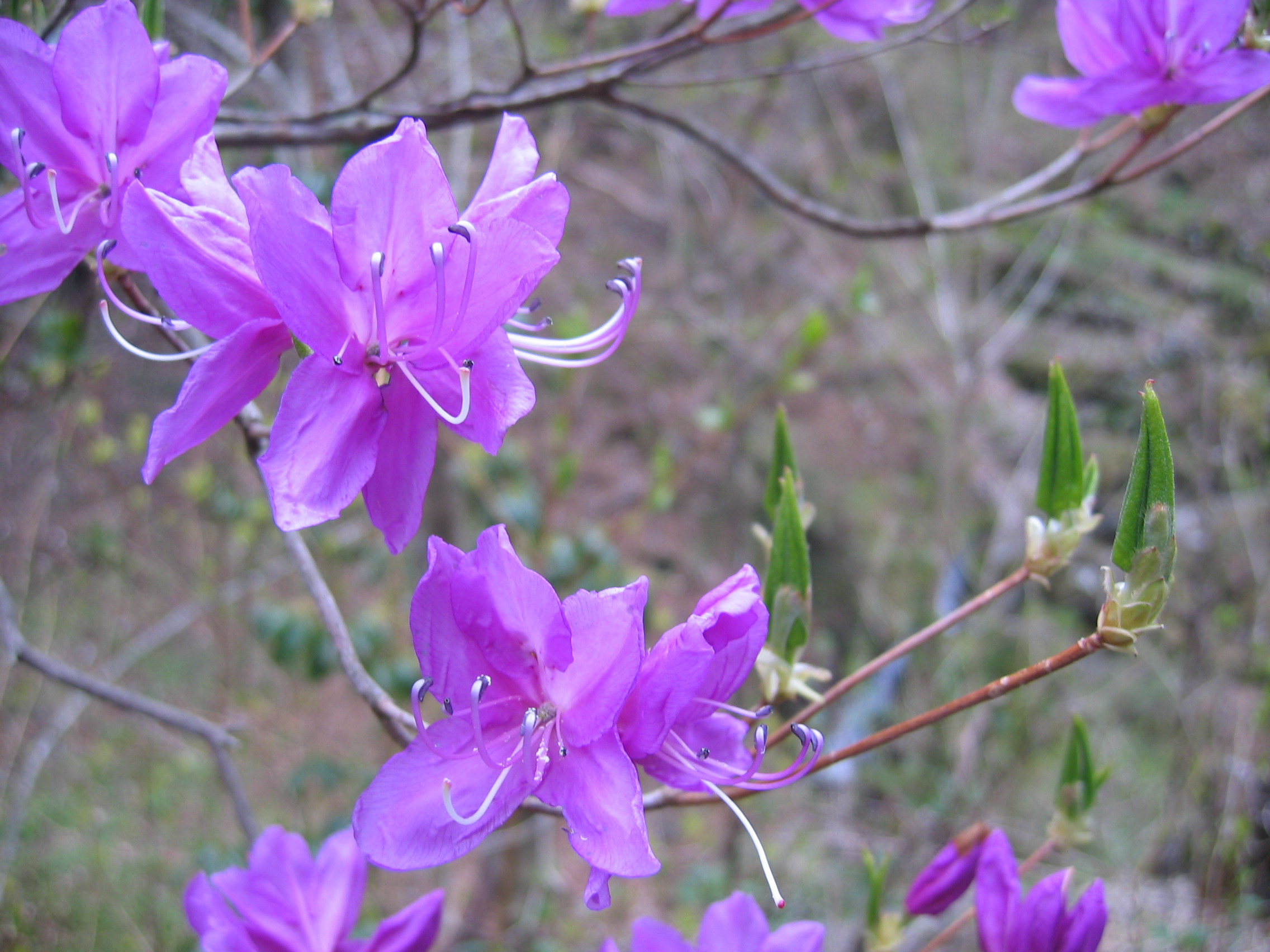 Rhododendron dilatatum